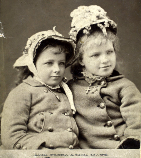 Maude Adams (L) and Flora Walsh in "The Wandering Boys", presented at Stanford Theatre, San Francisco, 25 July 1880